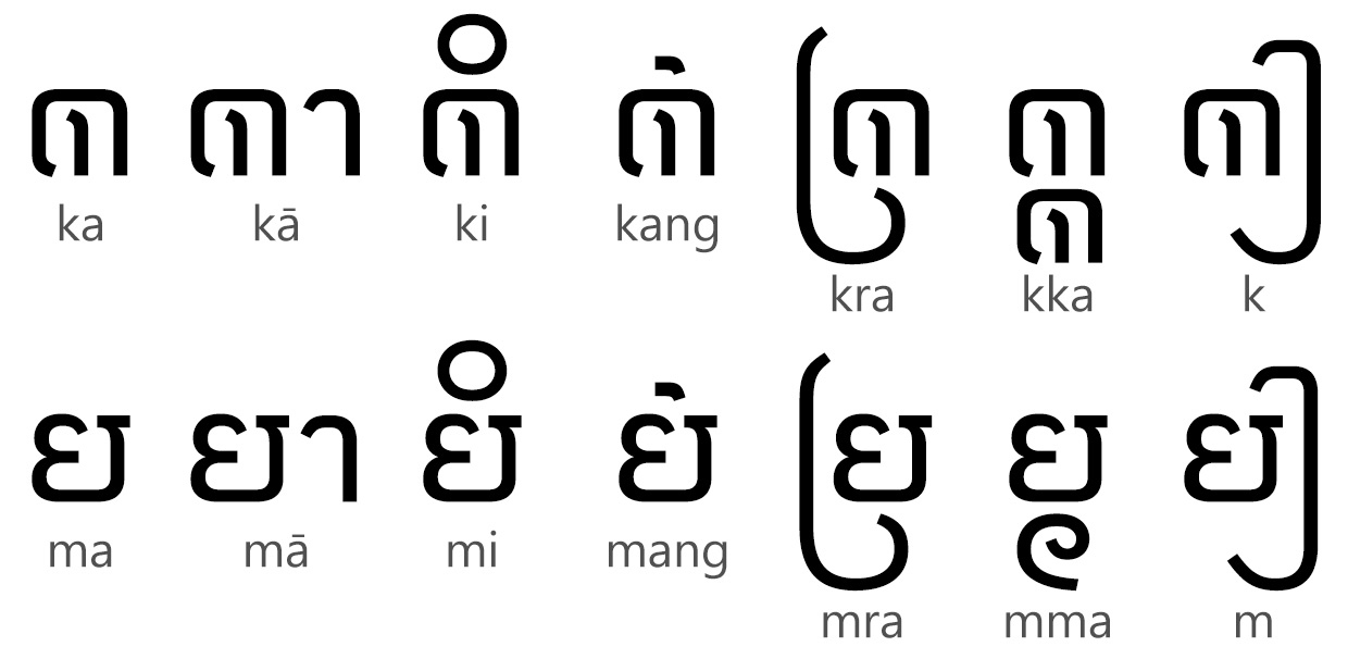 Characteristics of Kawi script